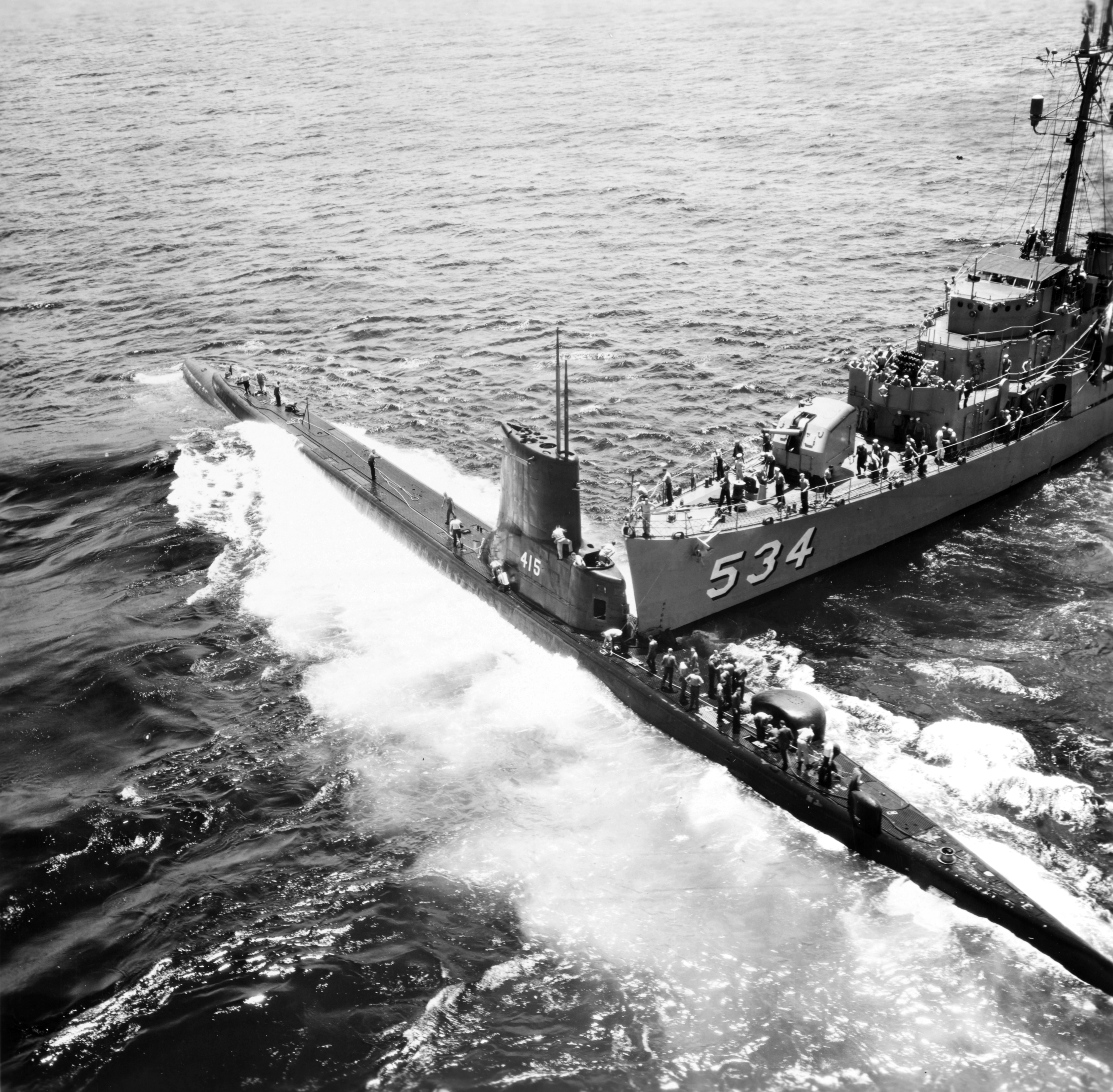 View of the collision between the U.S. Navy submarine USS Stickleback (SS-415) and the destroyer escort USS Silverstein (DE-534) off Oahu, Hawaii (USA), on 29 May 1958. Stickleback had completed a simulated torpedo run on Silverstein during an exercise. As Stickleback was going to a safe depth, she lost power and broached approximately 180 m ahead of the destroyer escort. Silverstein backed full and put her rudder hard left in an effort to avoid a collision but holed the submarine on her port side. Stickleback later sank.